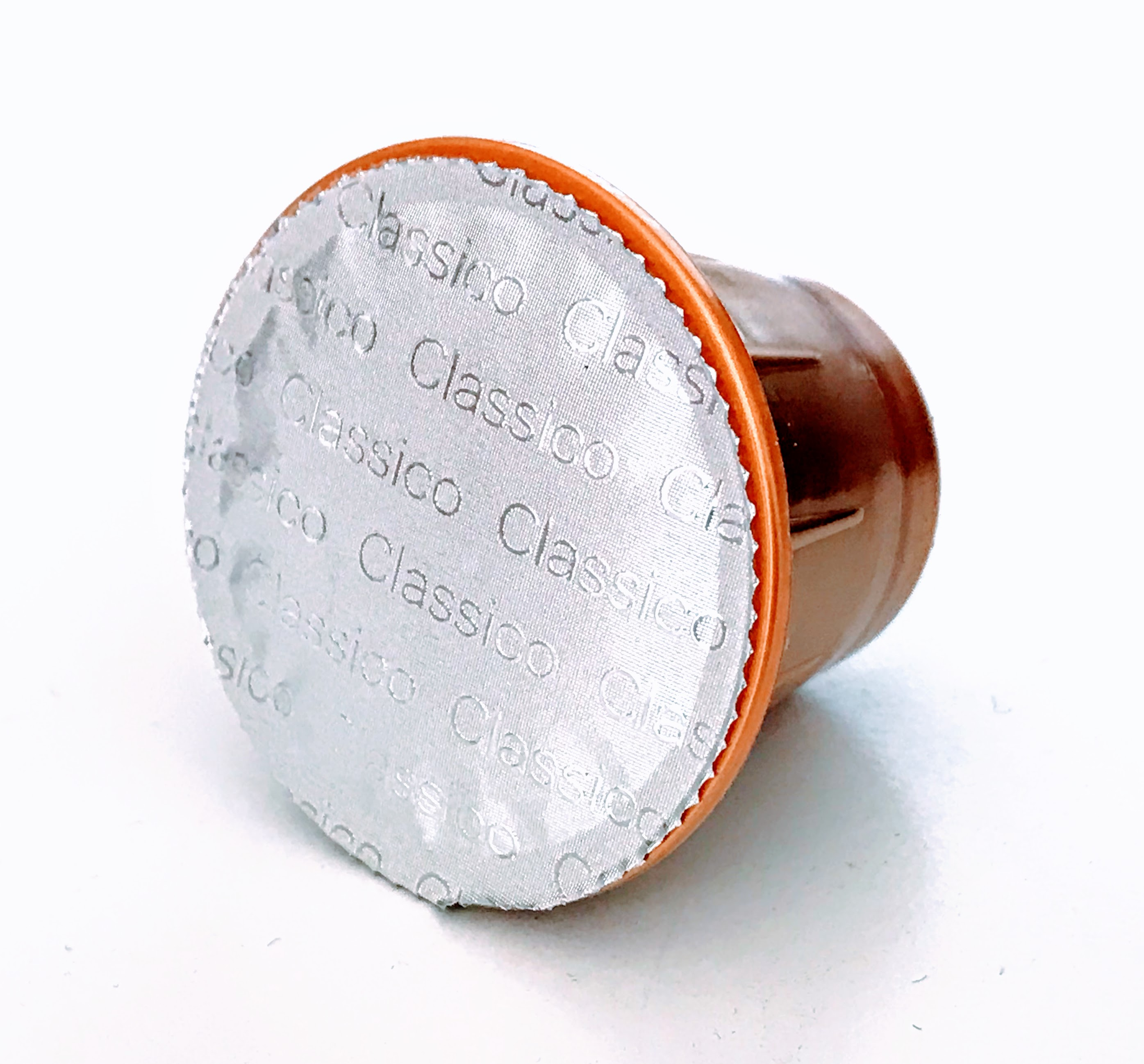 Lidl Bellarom Nespresso Classico cup